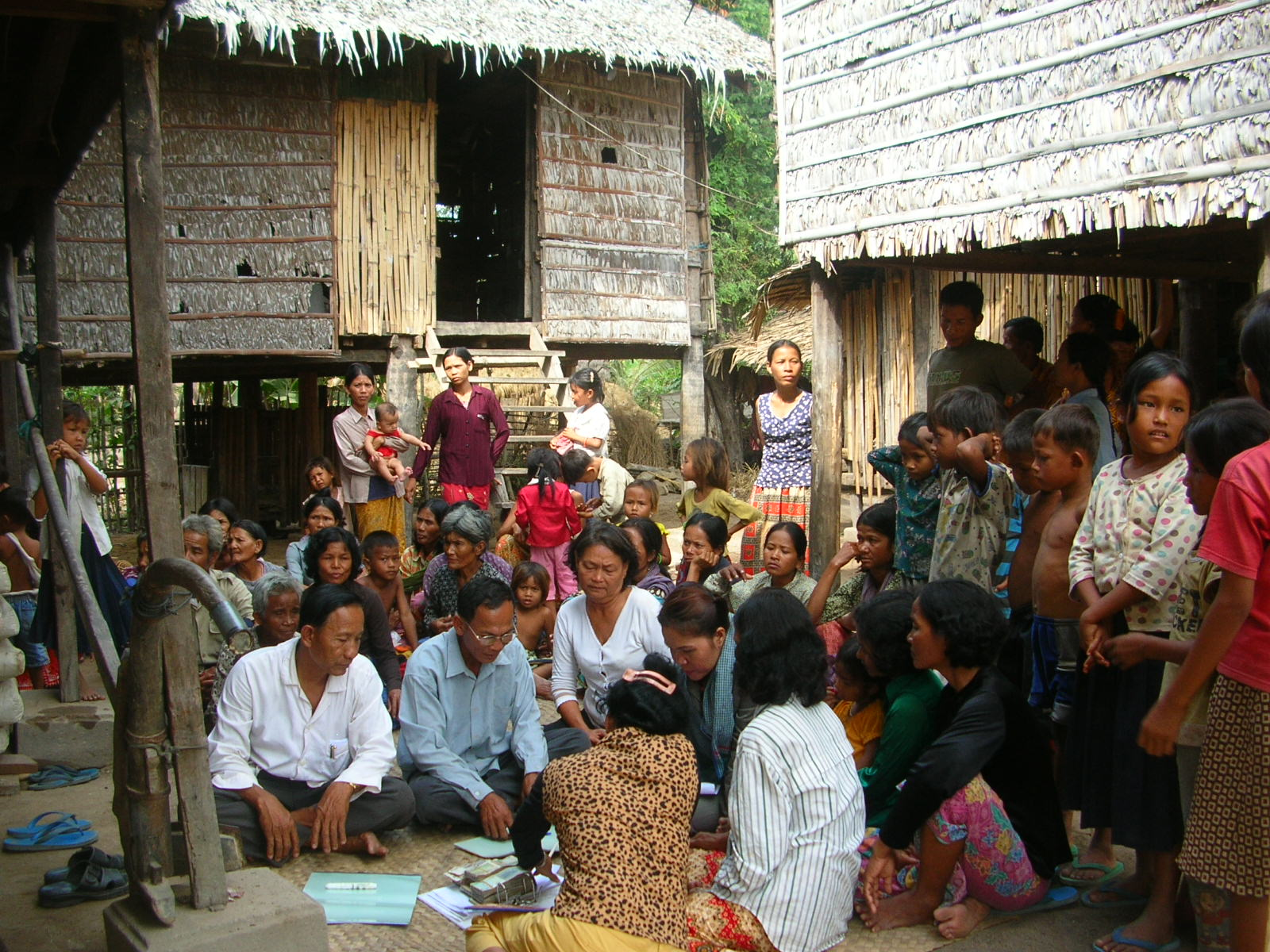 A village bank in Takeo province, Cambodia. Photo by Brett Matthews, January, 2006.